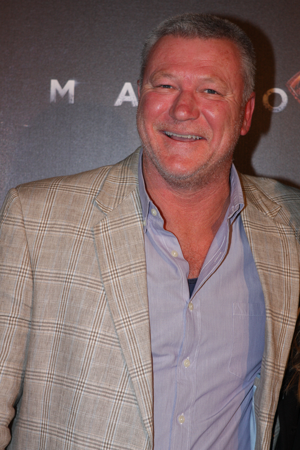 Scott Cam at Man Of Steel red carpet movie premiere, Sydney